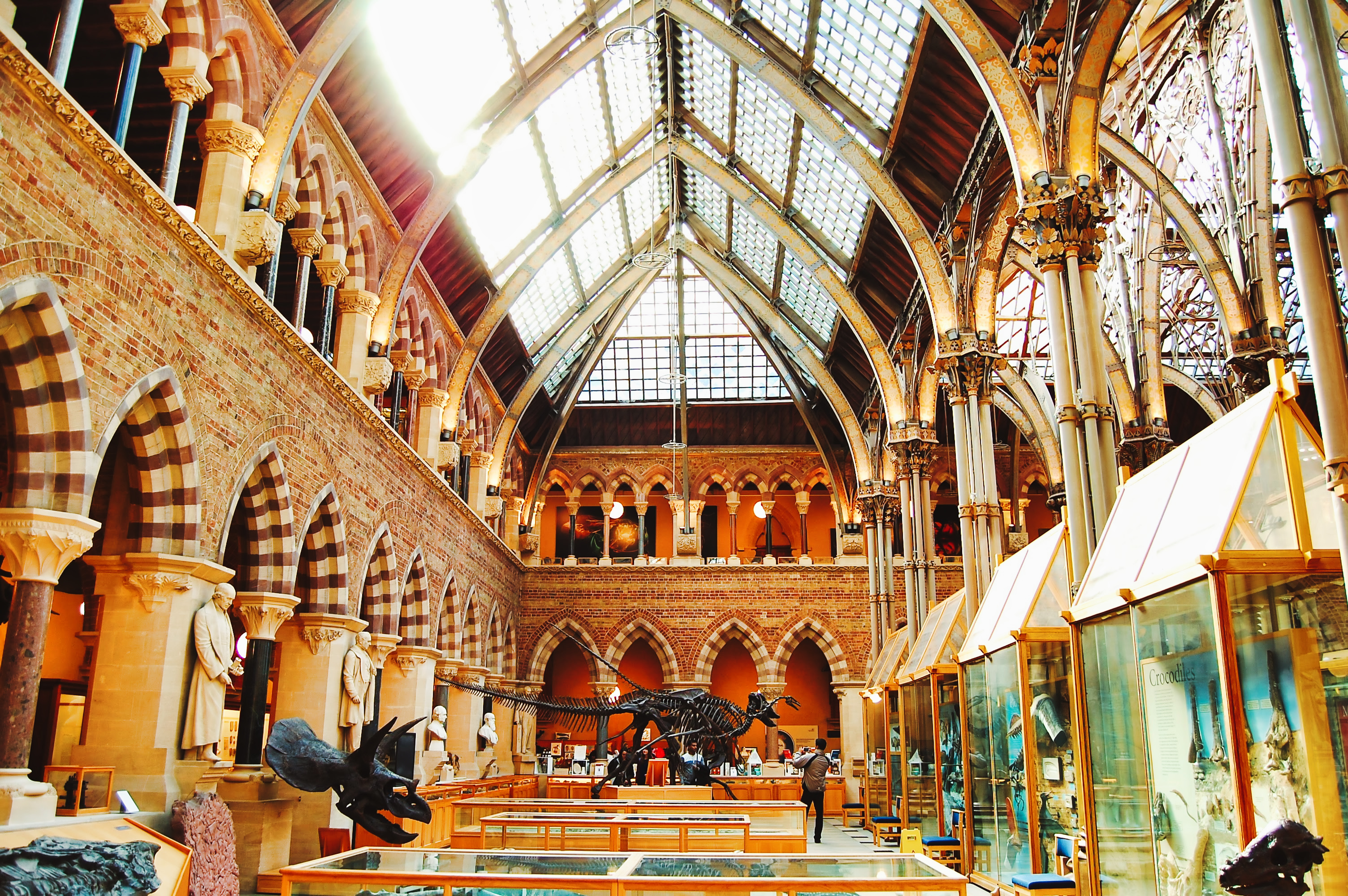 Dinosaur exhibition in Interior of Oxford University Museum of Natural History